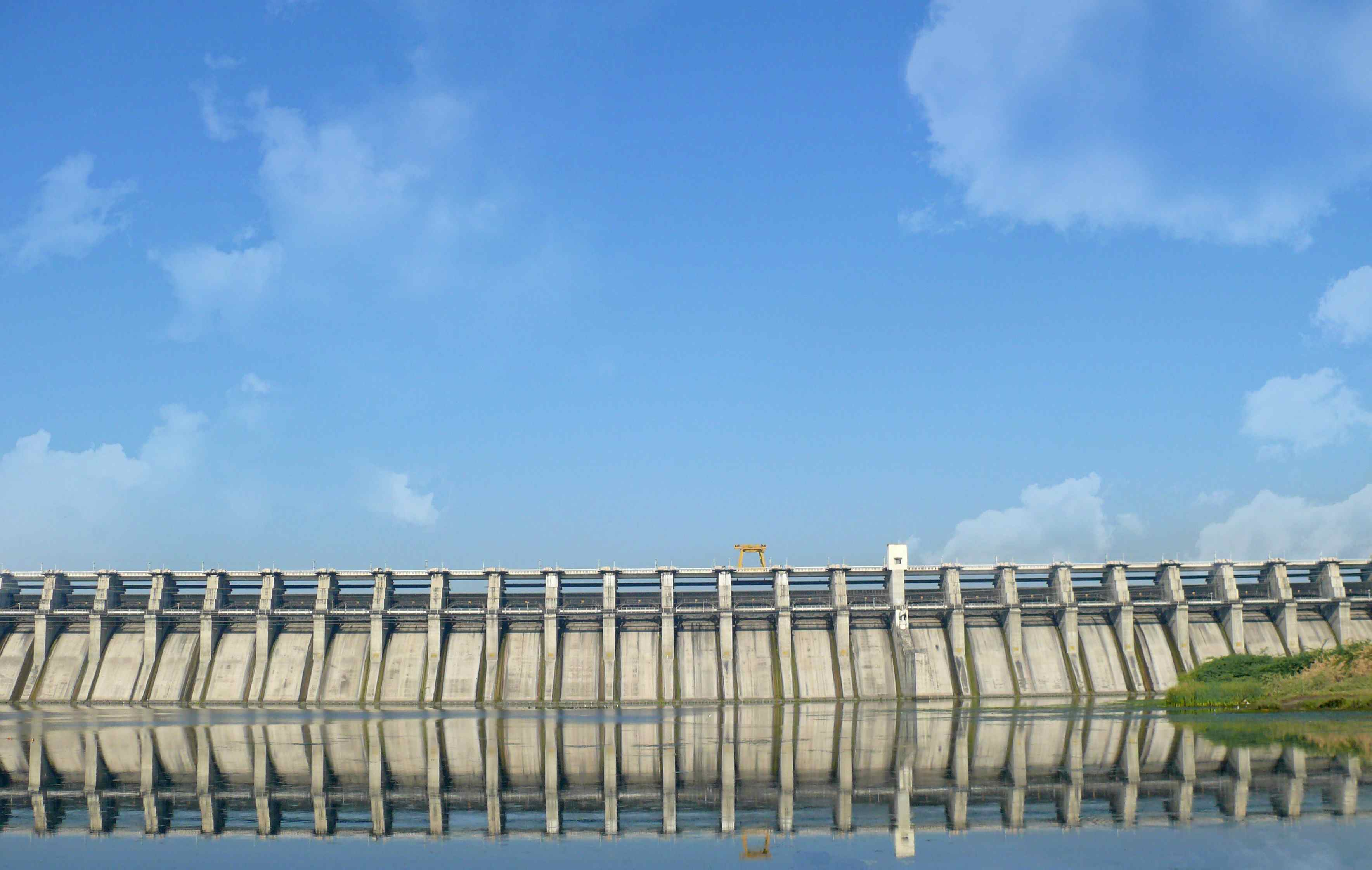 Jayakwadi Dam